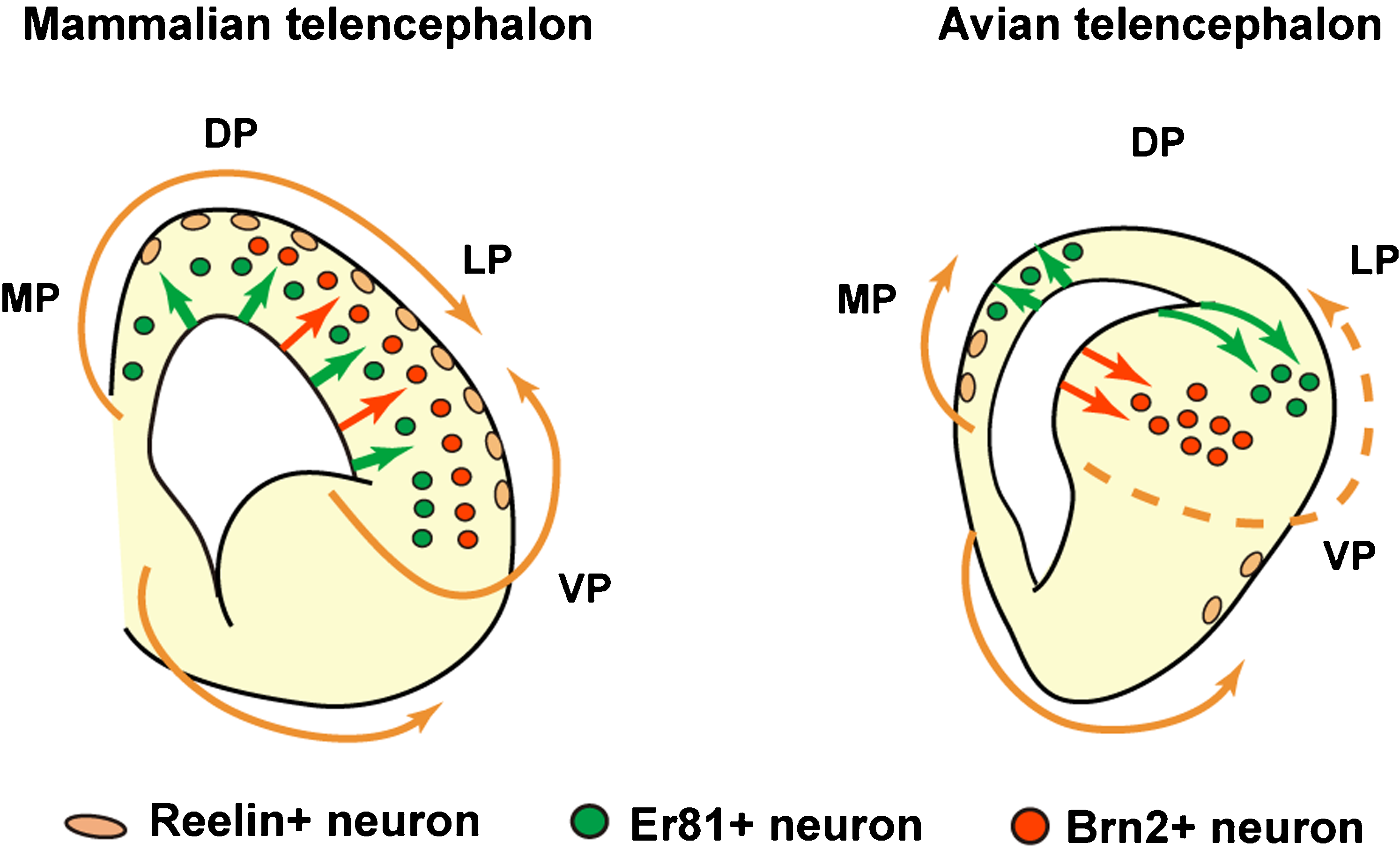 Schematic illustration of differences in neuronal specification and migration patterns between the mammalian and avian pallium. In the developing mammalian telencephalon, Reelin-positive neurons are derived from several origins including ventral pallium, and Er81 and Brn2-positive neurons are isotopically generated from entire pallial regions in a temporal manner. In contrast, in the developing avian telencephalon, Reelin-positive neurons are not derived from the ventral pallium, and Er81 and Brn2-positive neurons are generated from distinct pallial regions in a spatially regulated manner.